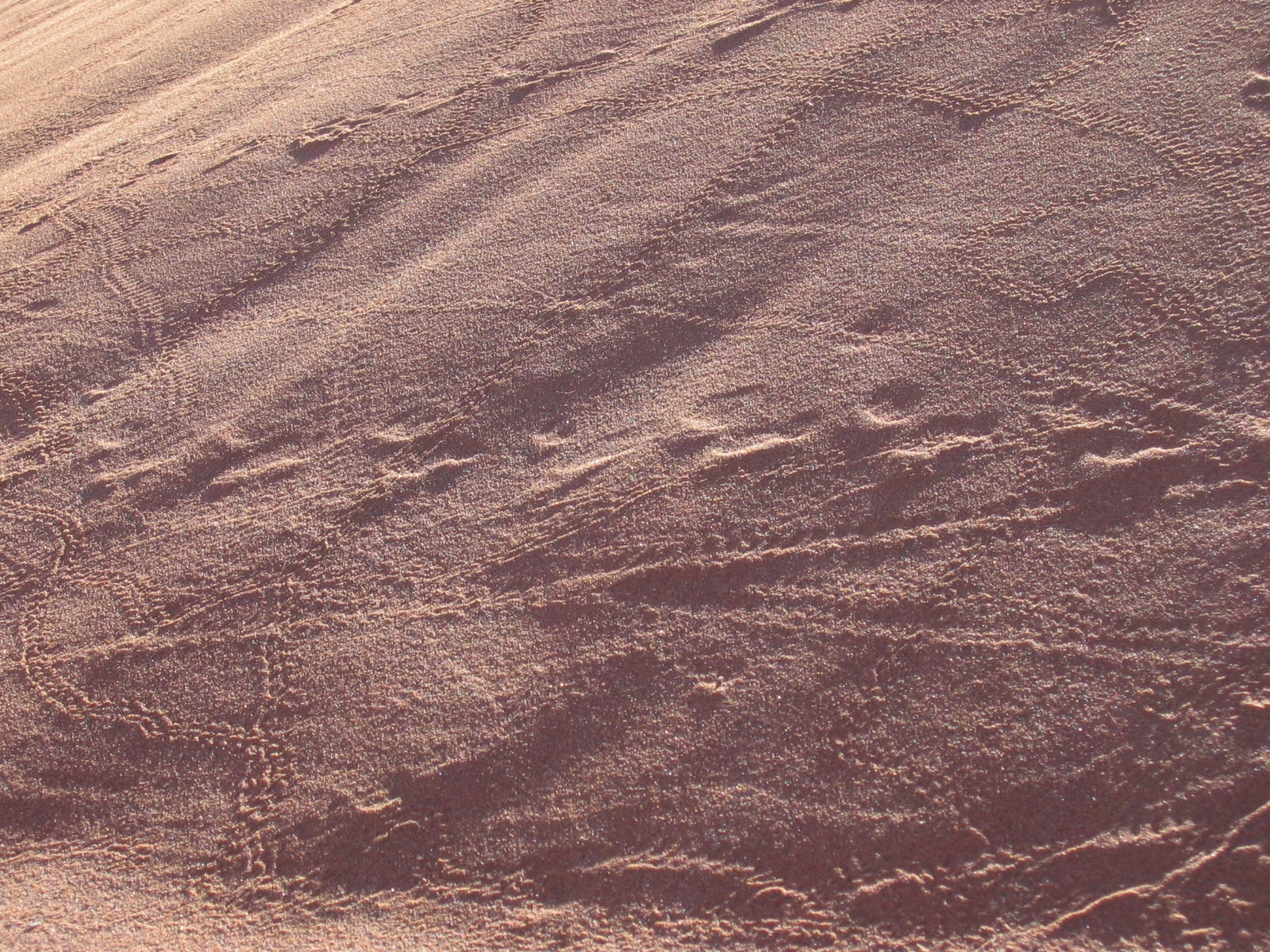 Tracks of insects, Sossusvlei, Namibia